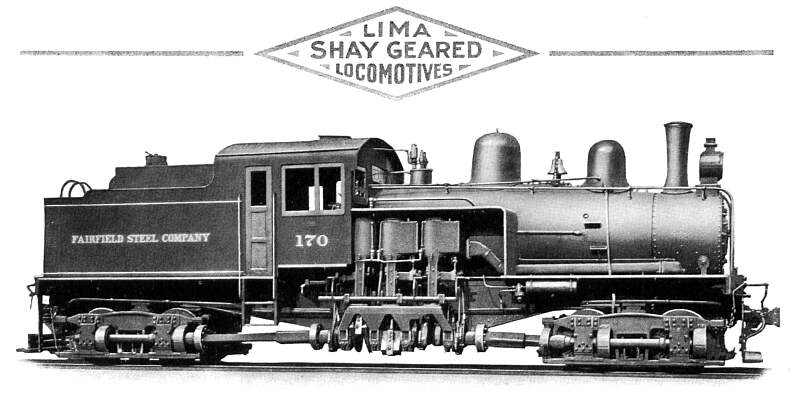 Class B Shay (3-cylinder, 2 truck) steam locomotive – Fairfield Steel Company 170. Lima s/n 2982 of October 1918